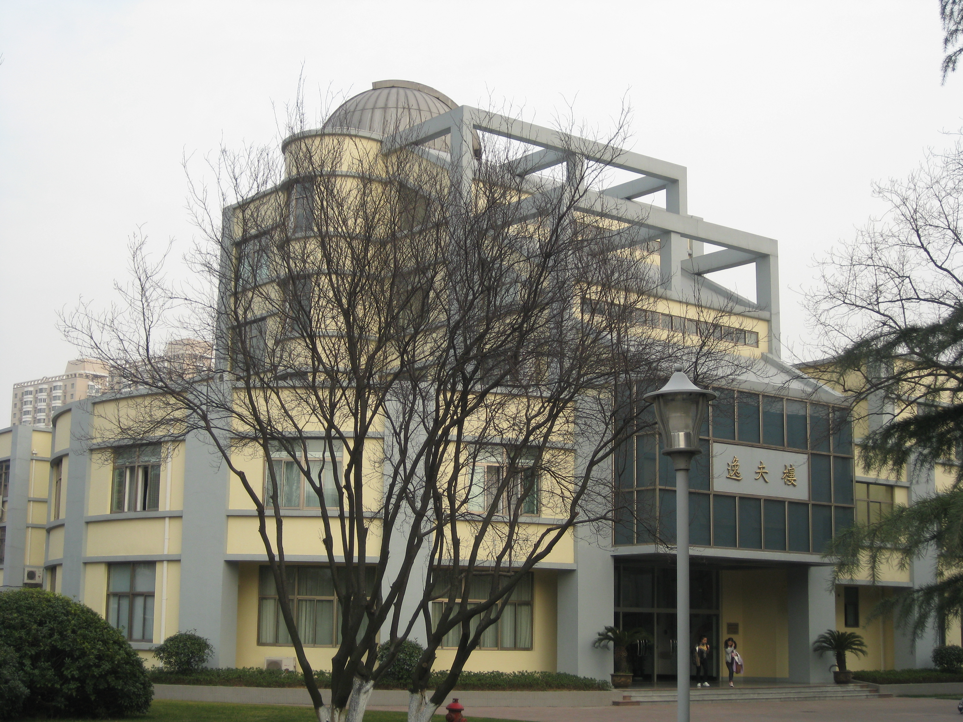 A ground-view of the Yifu Building.